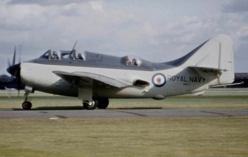 Fairey Gannet AS.4 XA417 of the Royal Navy newly assembled at Manchester (Ringway) Airport